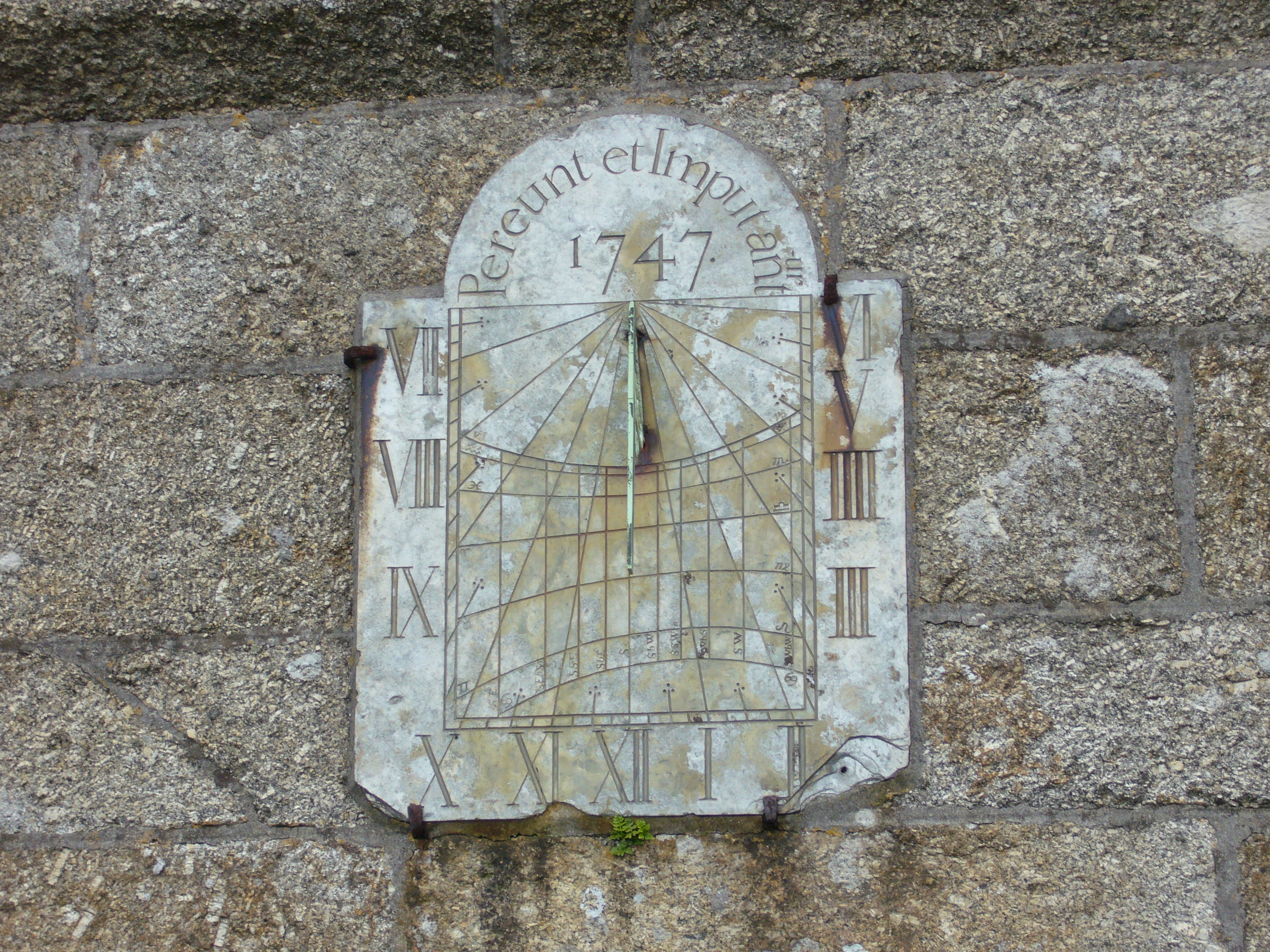 Sundial (south west decliner with dial furniture) on St Buryan Church, Cornwall, England. The Latin motto Pereunt et imputantur is from a text by Martial: bonosque soles effugere atque abire sentit, qui nobis pereunt et imputantur, which means "each of us feels the good days speed and depart, and they are lost and counted against us".